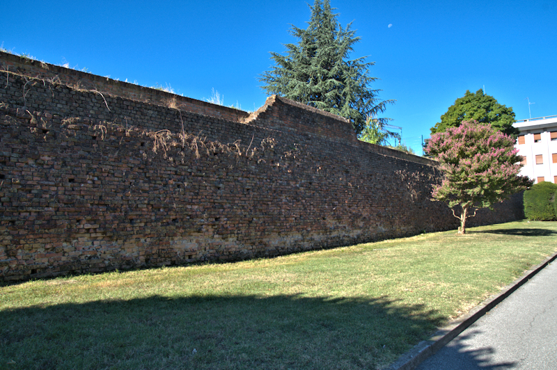 Crema Venetian Walls: view from Via Stazione